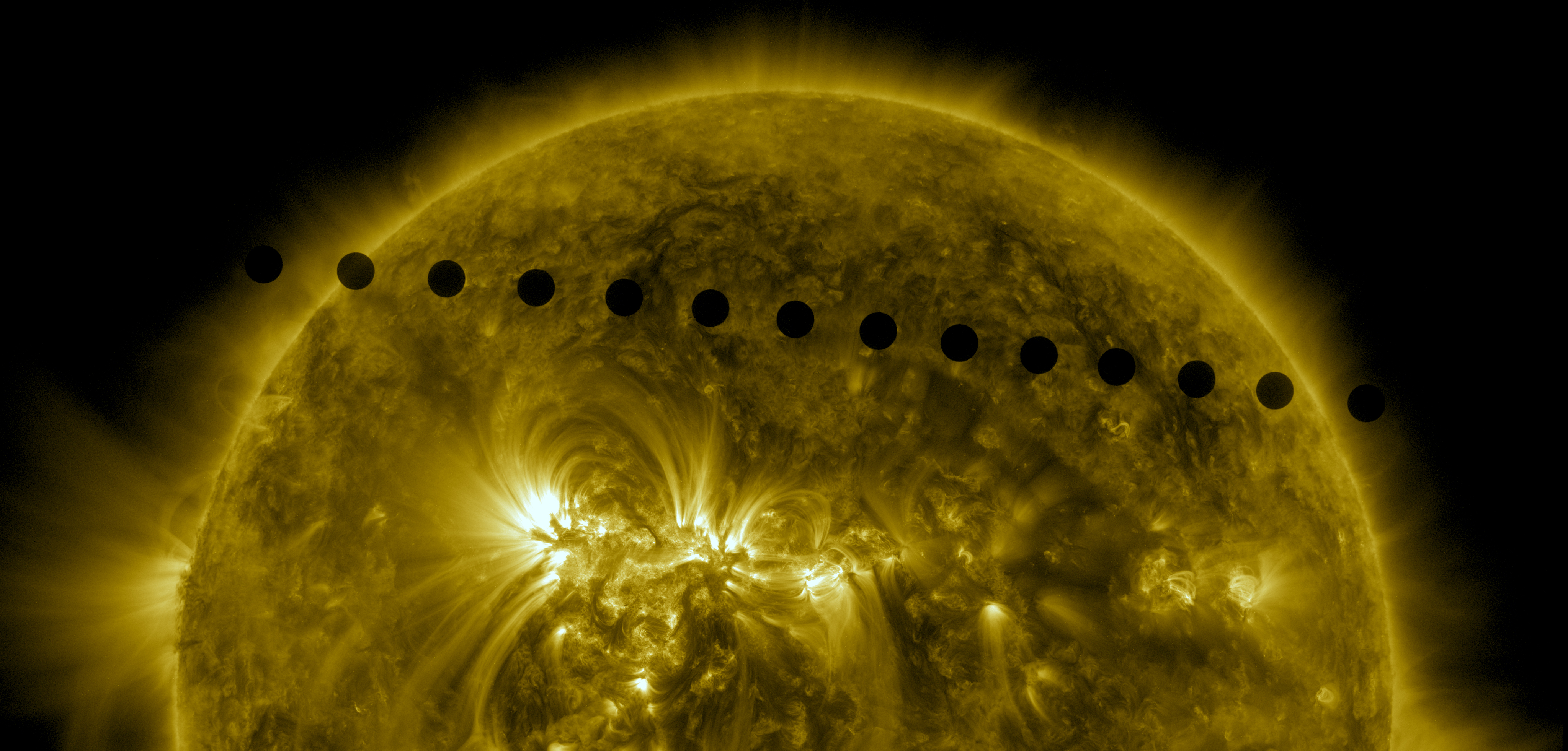 This image shows a sequence of photographs by NASA's SDO spacecraft, taken in the extreme ultraviolet spectrun (171 Angstroms), and stitched together to show Venus's path across the face of the Sun. On June 5-6 2012, SDO collected images of one of the rarest predictable solar events: the transit of Venus across the face of the sun. This event happens in pairs eight years apart that are separated from each other by 105 or 121 years. The previous transit was in 2004 and the next will not happen until 2117.